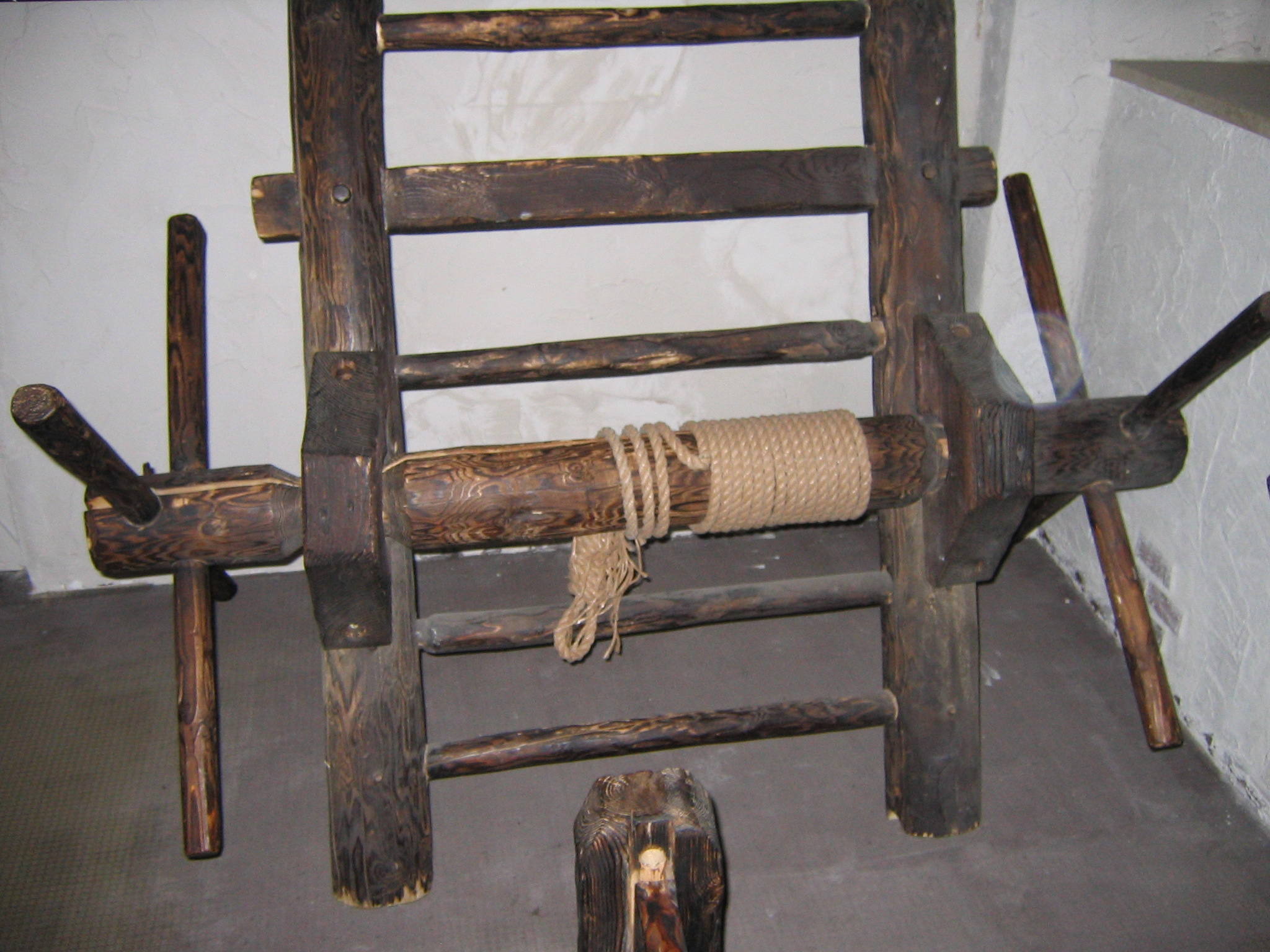 Torture ladder at the torture museum in Freiburg im Breisgau